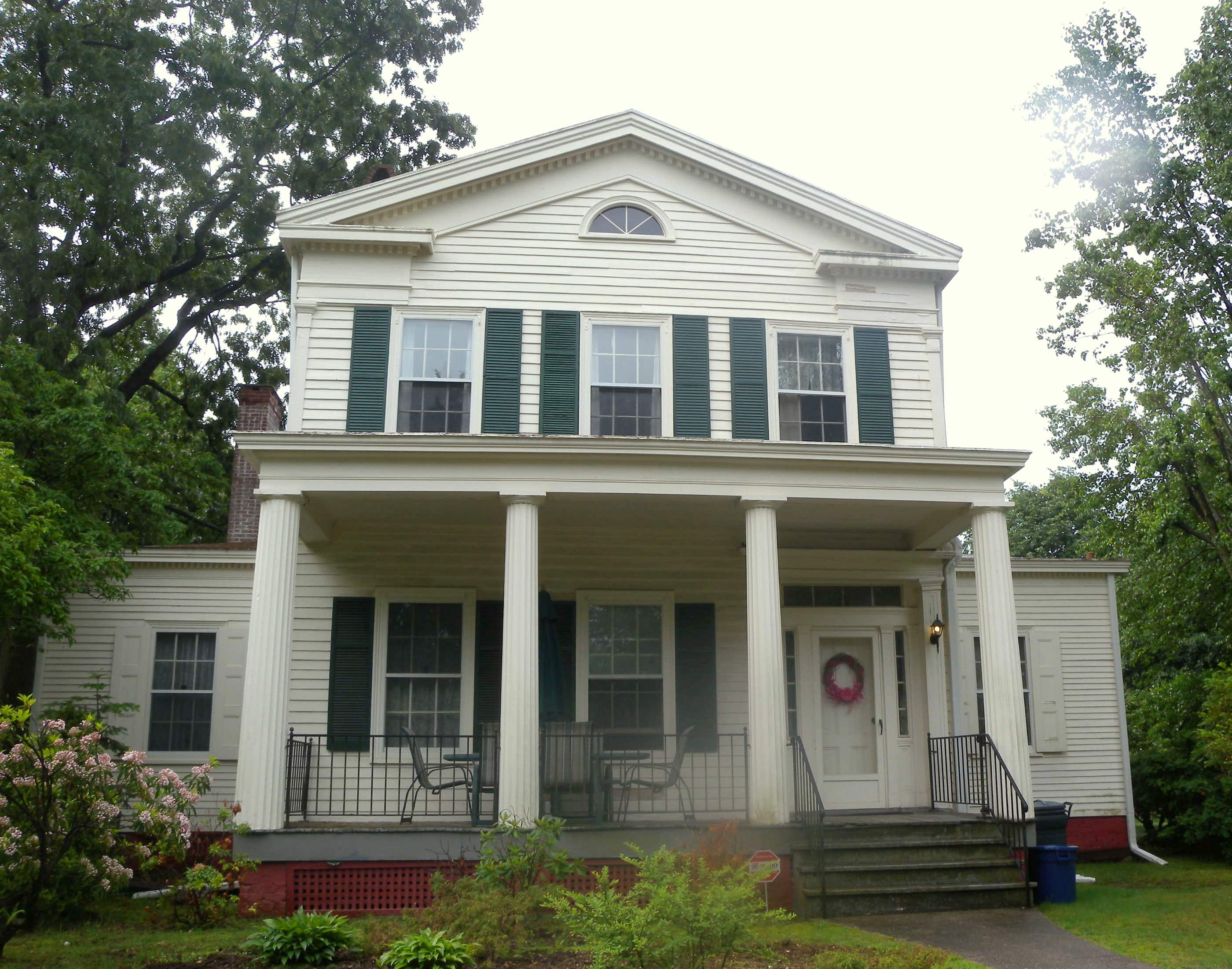 Looking south uphill at Judge Horatio Onderdonk House on a rainy morning.